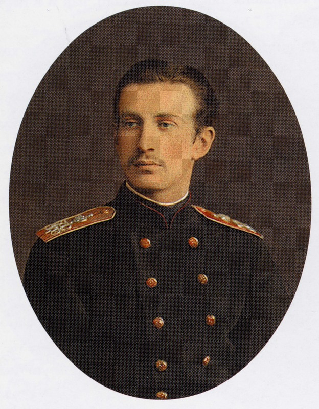 Grand Duke Nicholas Constantinovich of Russia